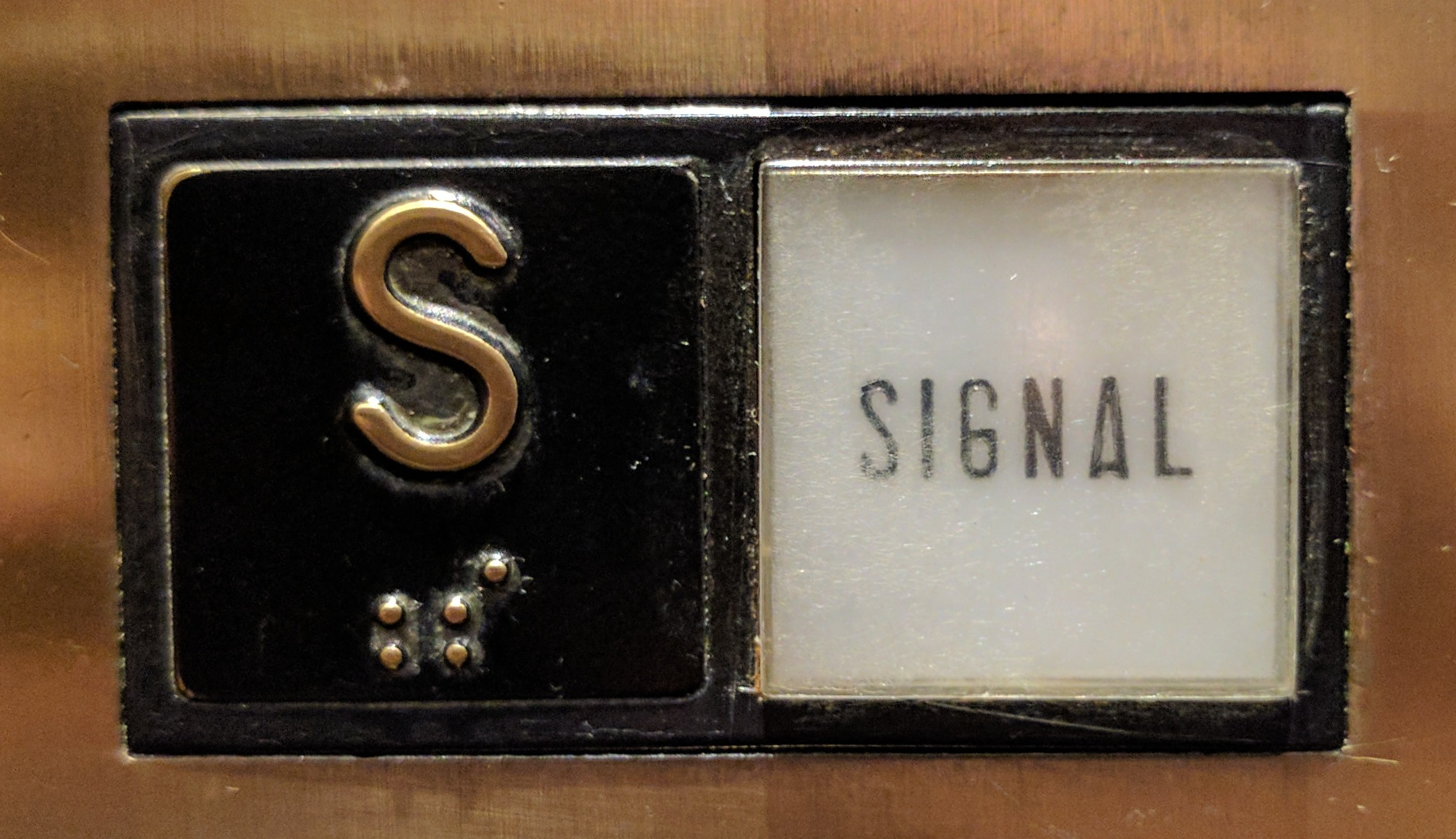 Elevator ‘S’ “Signal” button, used in 1990s/2000s US elevators to turn on audio floor signal